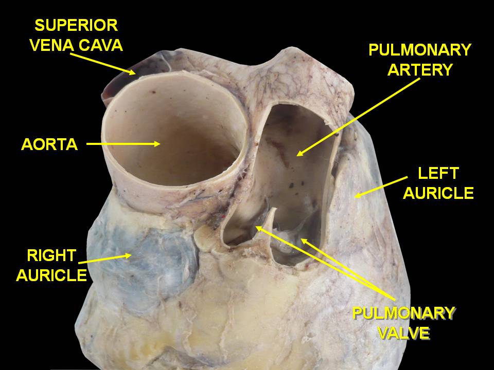 Anatomical dissections